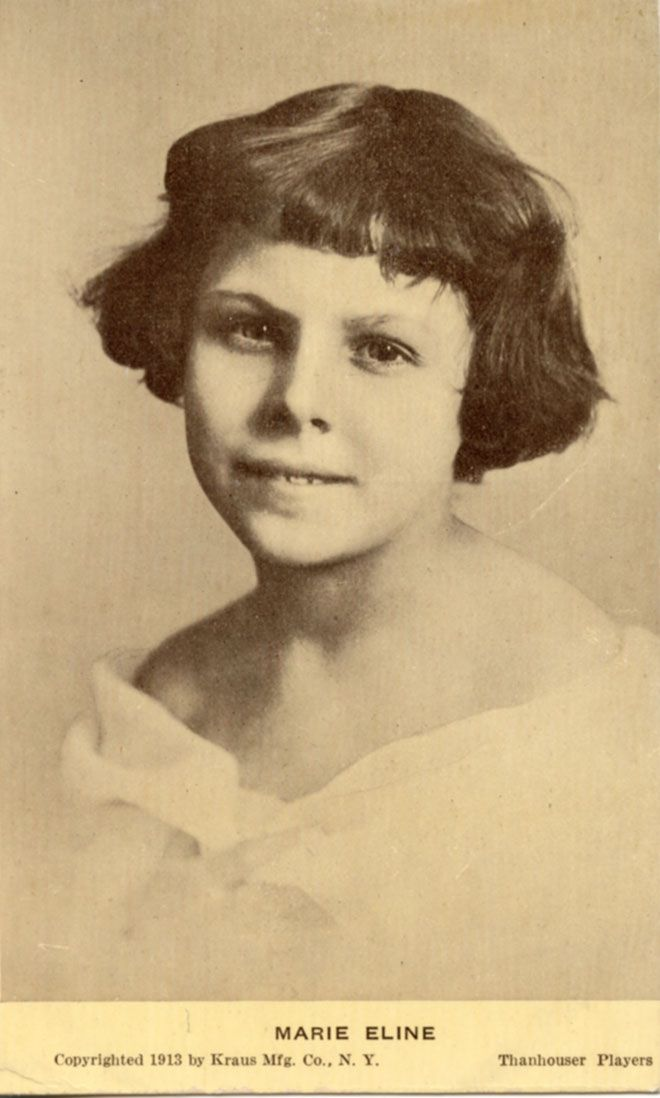 Marie Eline - Thanhouser Kid in 1913